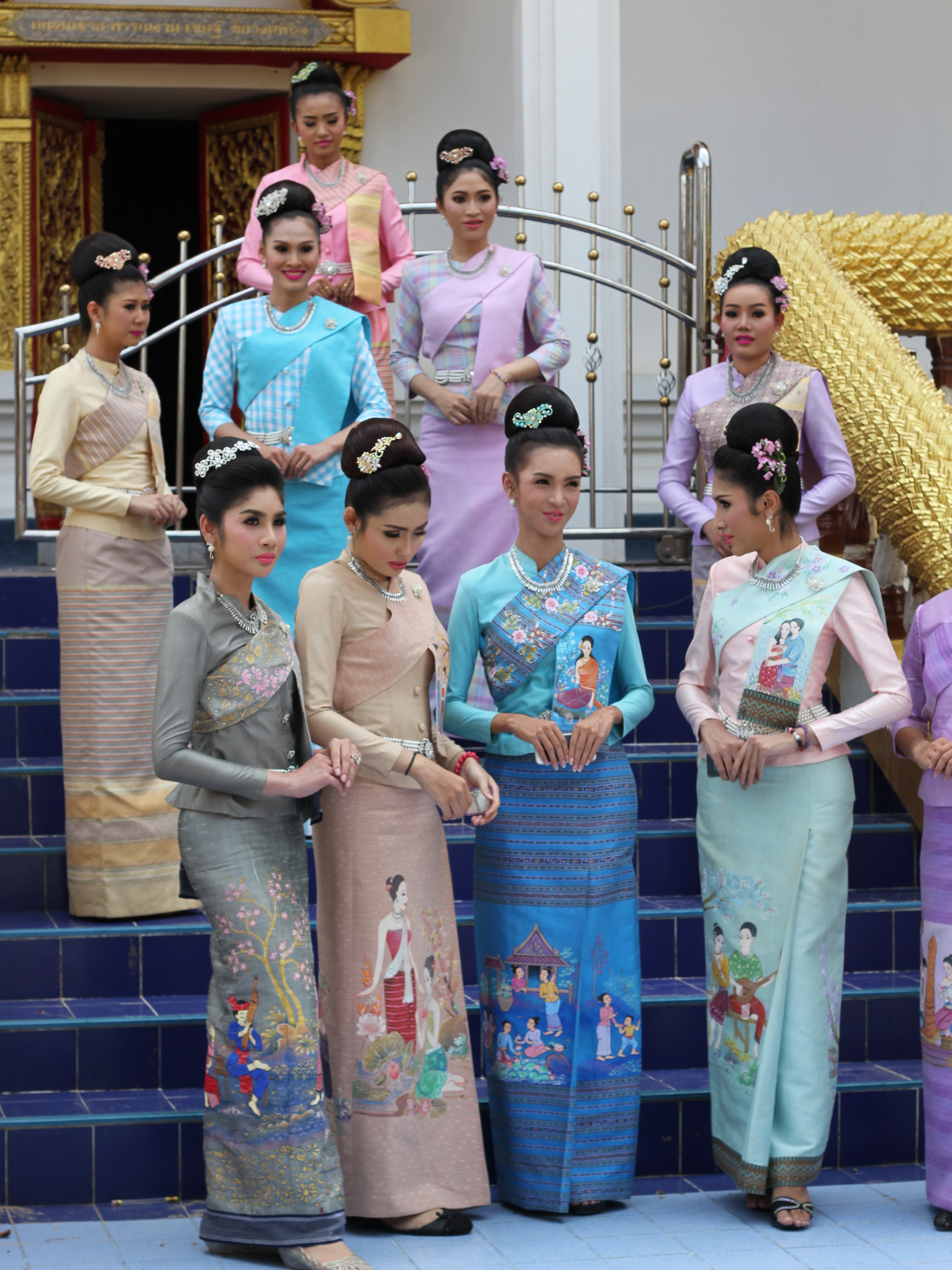 Isan Modifide dressing for Bung Fai parade in Suwannaphume, Roi Et by Look Lanh Muang Sriphume club